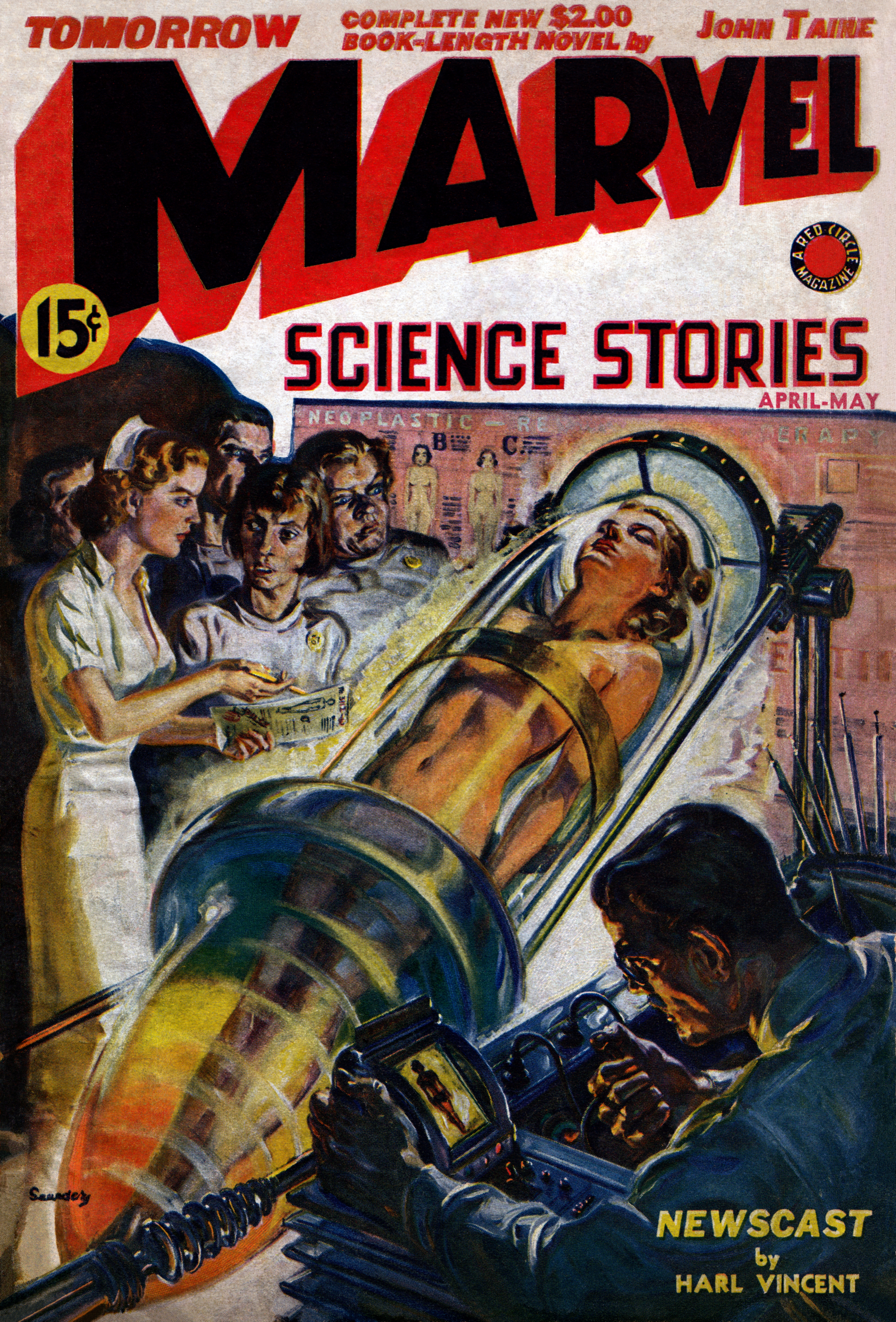 Cover of the April-May 1939 issue of Marvel Science Stories. Art is by Norman Saunders. From the Table of Contents: "This Month's Cover: Norman Saunders, inimitable science-fiction cover artist, gives his conception of a beauty parlor of the future— A Mechanical Fountain of Touth." There's also a column by Eando Binder discussing it, entitled "A Mechanical Fountain of Youth". A short sample: "Let us assume it is some future year, and whatever age you are now, you are in need of rejuvenation by then. You enter the Youth Emporium, pay the fee (in accordance with your pocketbook, perhaps) and the Operator questions you. How long do you want to feel—about twenty-one? How handsome do you want to look—like the current matinee idol? And the best of health, of course?" Colours have been adjusted against the original (this is far more accurate than the original scan), the long crease/tears removed, and general cleanup. The "TOM" of Tomorrow at the top had to be partially reconstructed due to particular damage to that section. Some stamps of a foolish bookseller were removed.